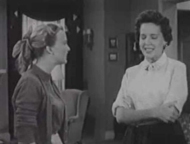 Screenshot from the 1955 TV series Meet Corliss Archer